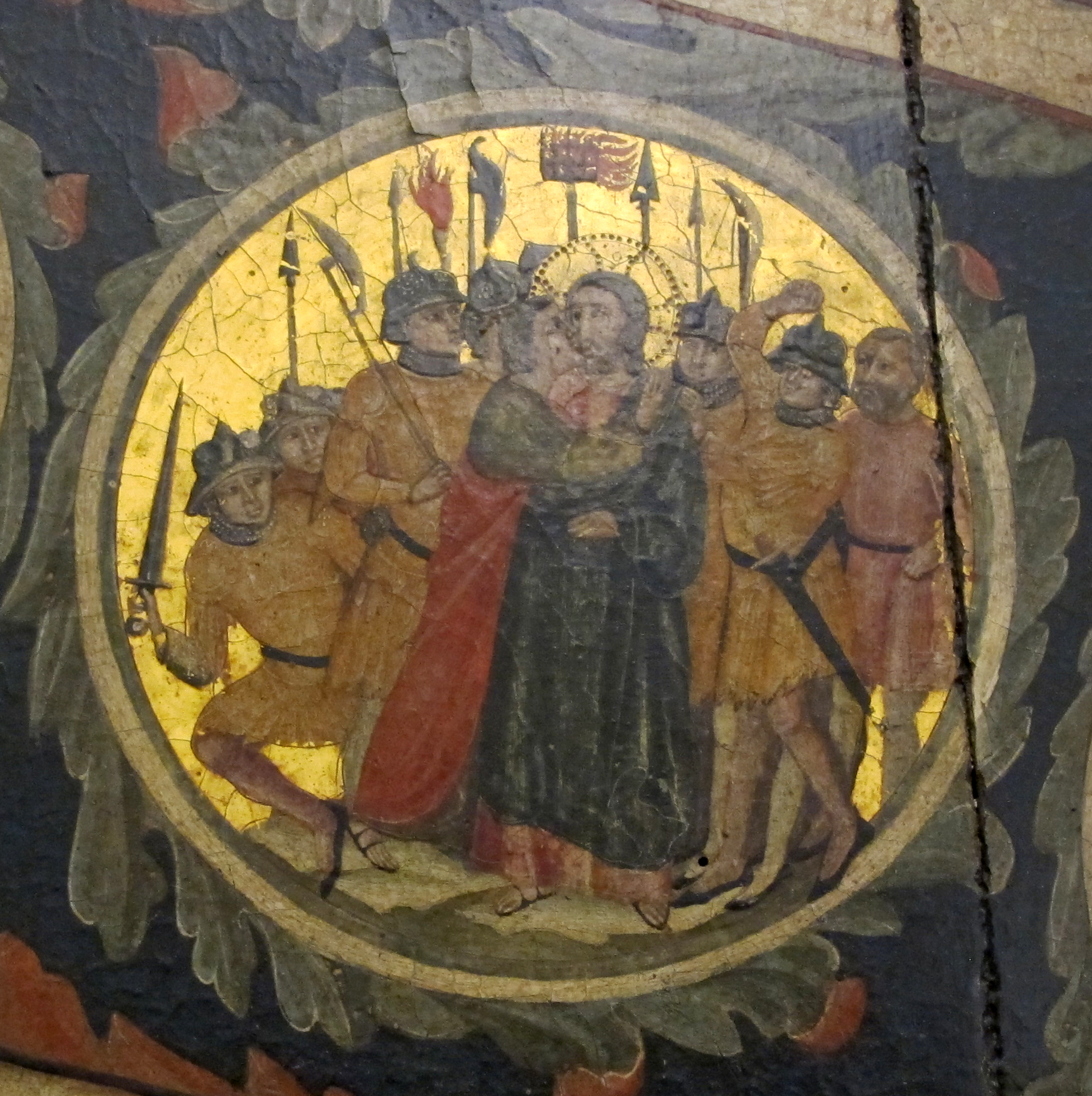 Tree of Life (Pacino di Buonaguida)